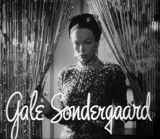 Cropped screenshot of Gale Sondergaard from the trailer for the film The Letter.